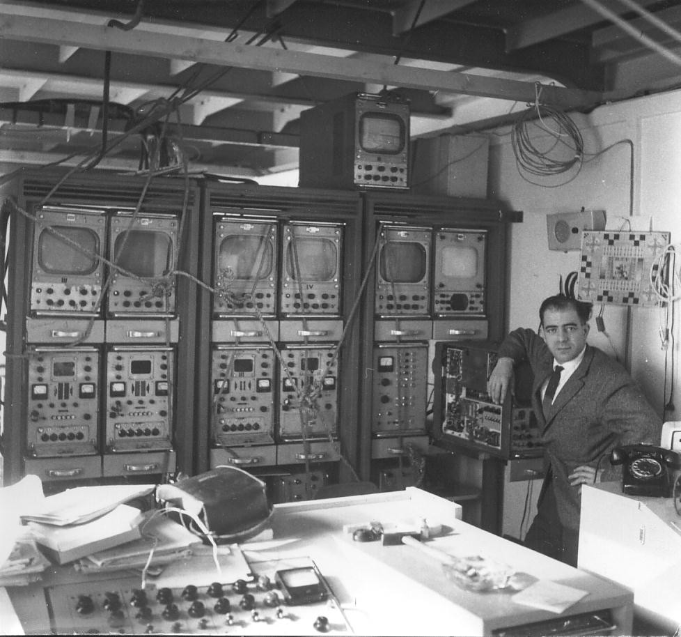 Régie mobile de télévision